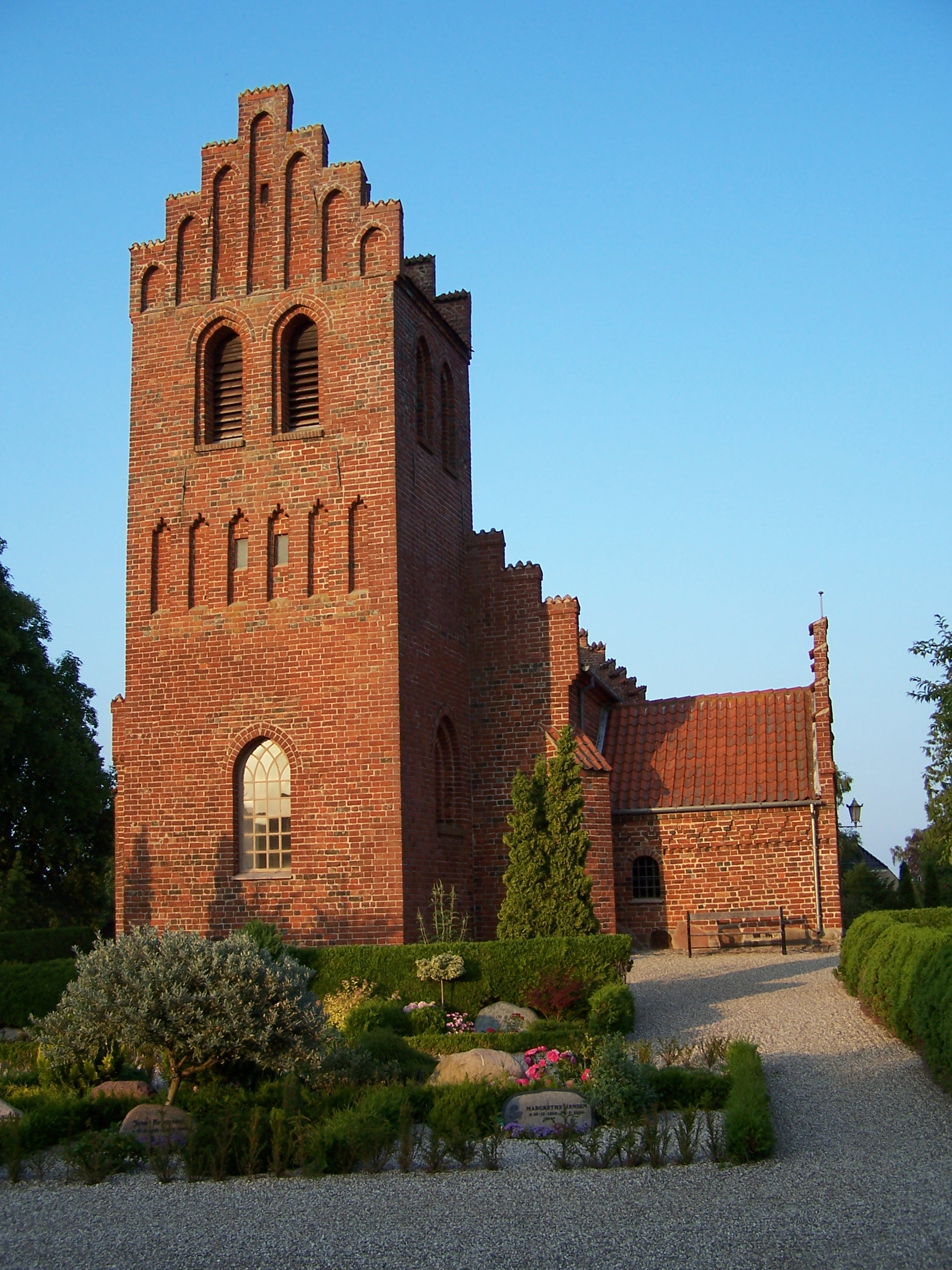 Alsønderup Church